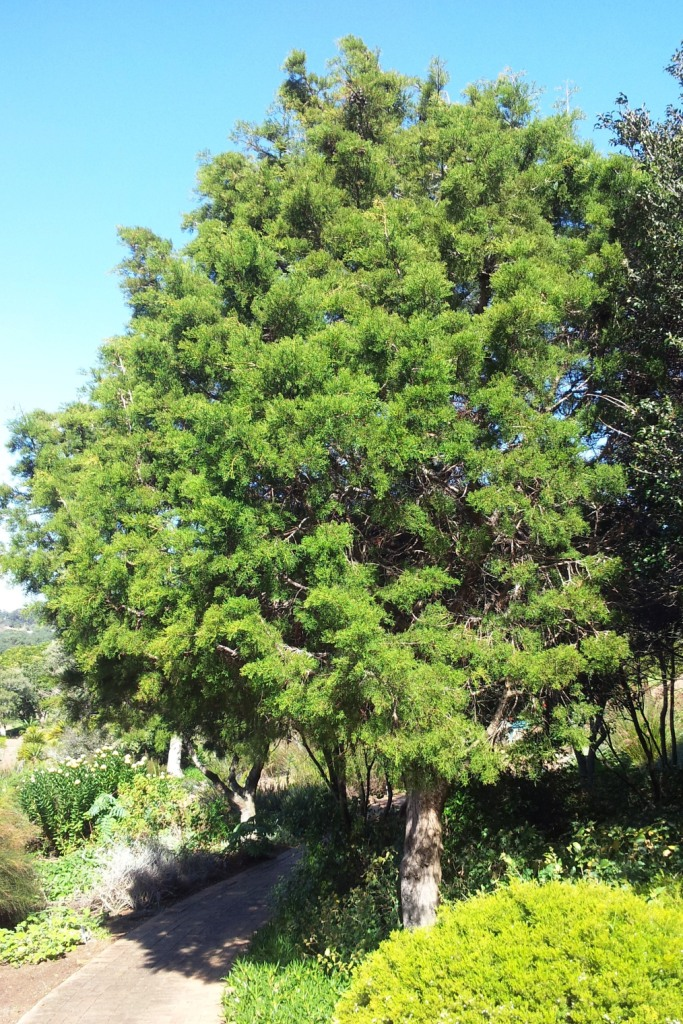 Mountain Cedar. Widdringtonia nodiflora. Cape Town indigenous trees.